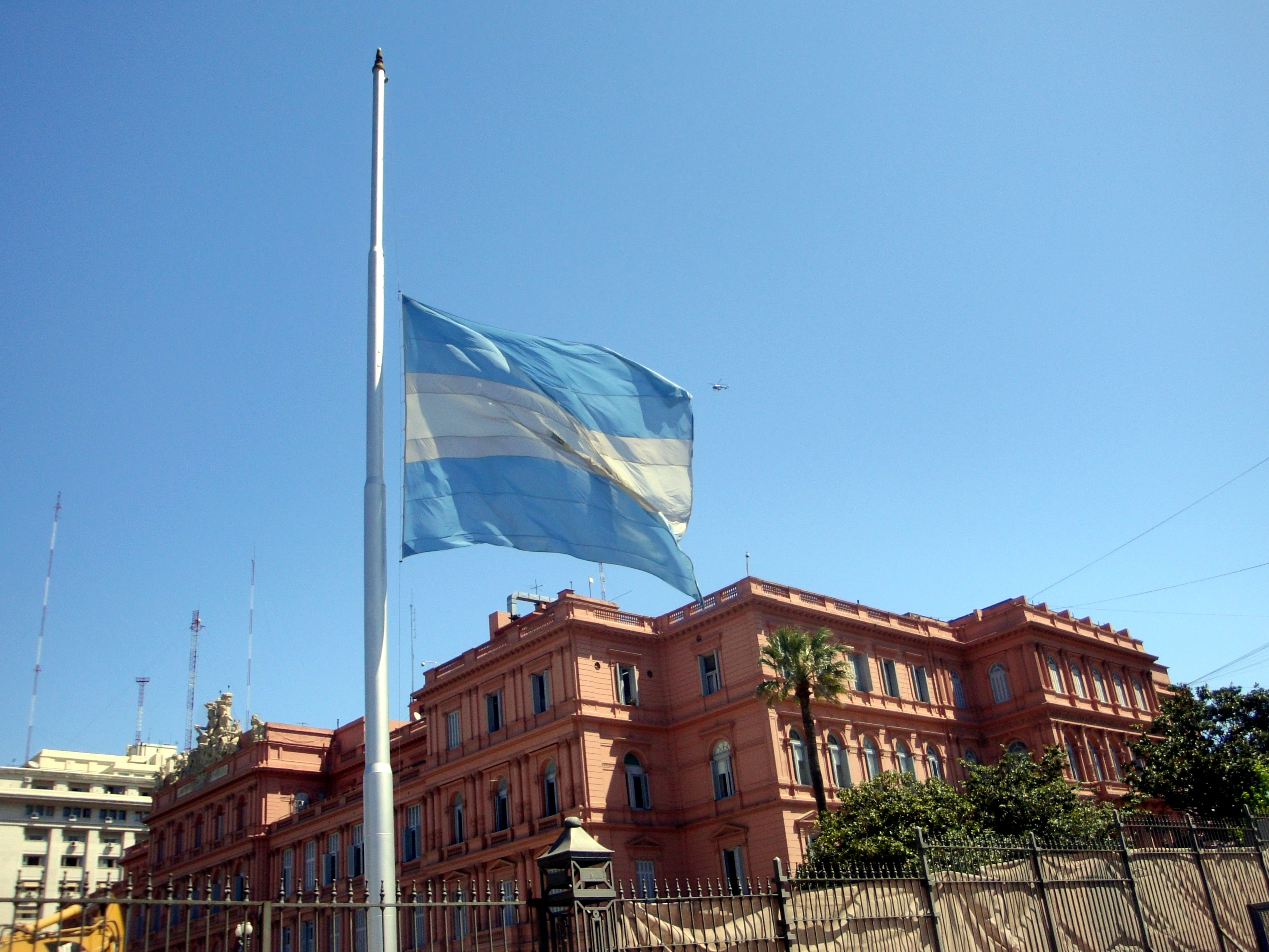 Argentinian flag waving in front of the Casa Rosada at half mast during the funeral of former President Nestor Kirchner.